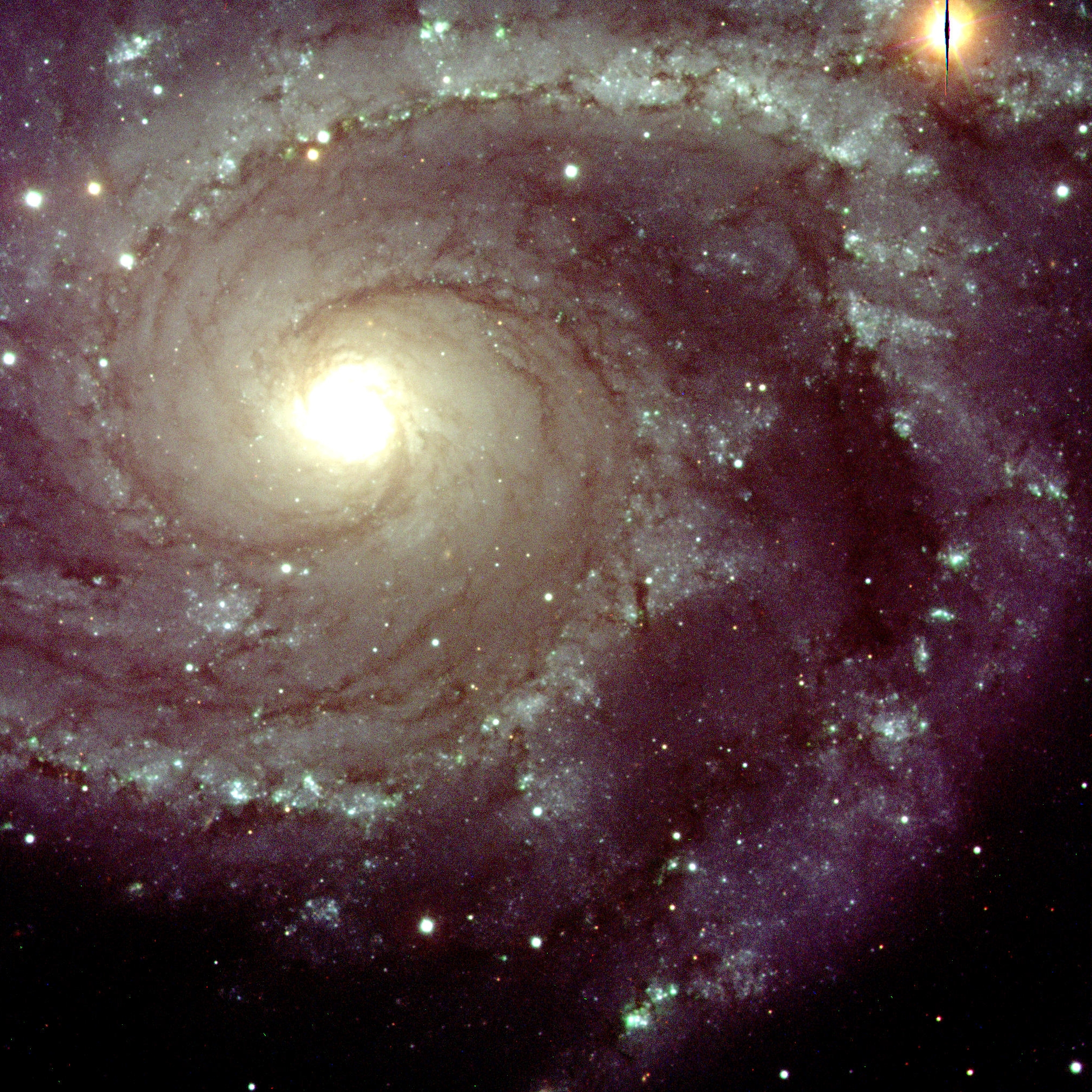 This is a three-colour composite of the spiral galaxy NGC 2997 in the southern constellation Antlia (The Air Pump), obtained with the VLT UT1 and FORS1 in the morning of March 5, 1999. It is based on three exposures in V (green; 3 min; image quality 0.35 arcsec), R (red; 3 min; 0.34 arcsec) and I (near-infrared; 5 min; 0.25 arcsec) bands, with the Moon above the horizon. The field measures 3.4 x 3.4 arcmin 2 or, at the distance of the galaxy (about 55 million light-years), 55,000 x 55,000 light-years. FORS1 was operated in high-resolution imaging mode; the pixel size was 0.1 arsec. North is down and East is left. ID phot-17a-99 Press Release 06/99 Object NGC 2997 Telescope UT1/Antu Instrument FORS1 Size 2030 x 2030 Credit ESO